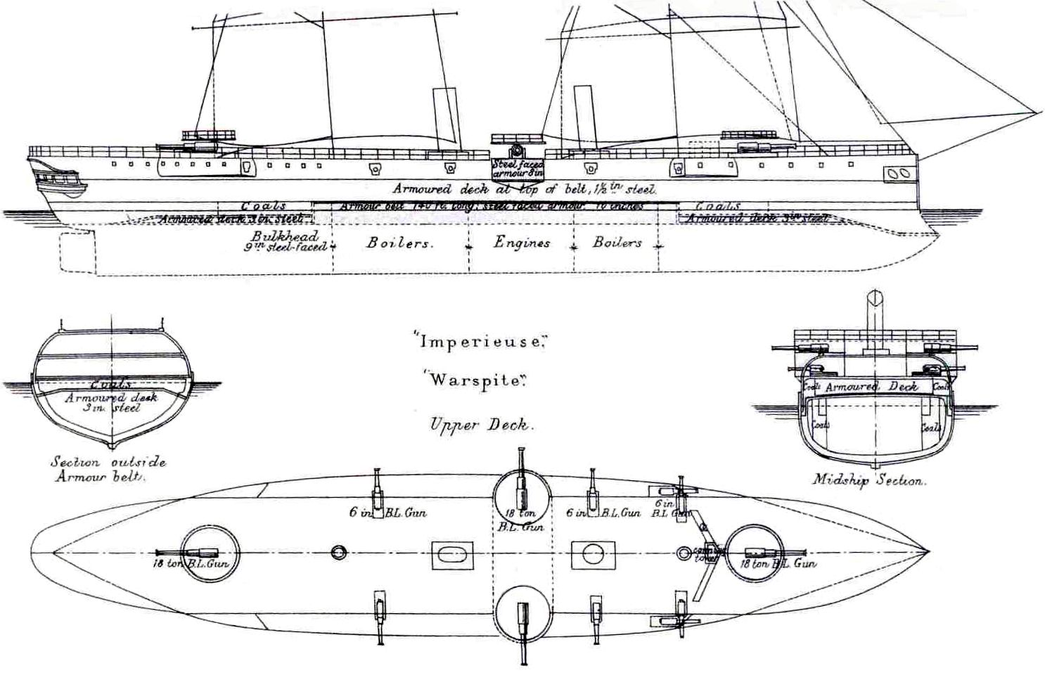 Diagrams showing starboard elevation and deck plan of British Imperieuse class cruisers. Downloaded from